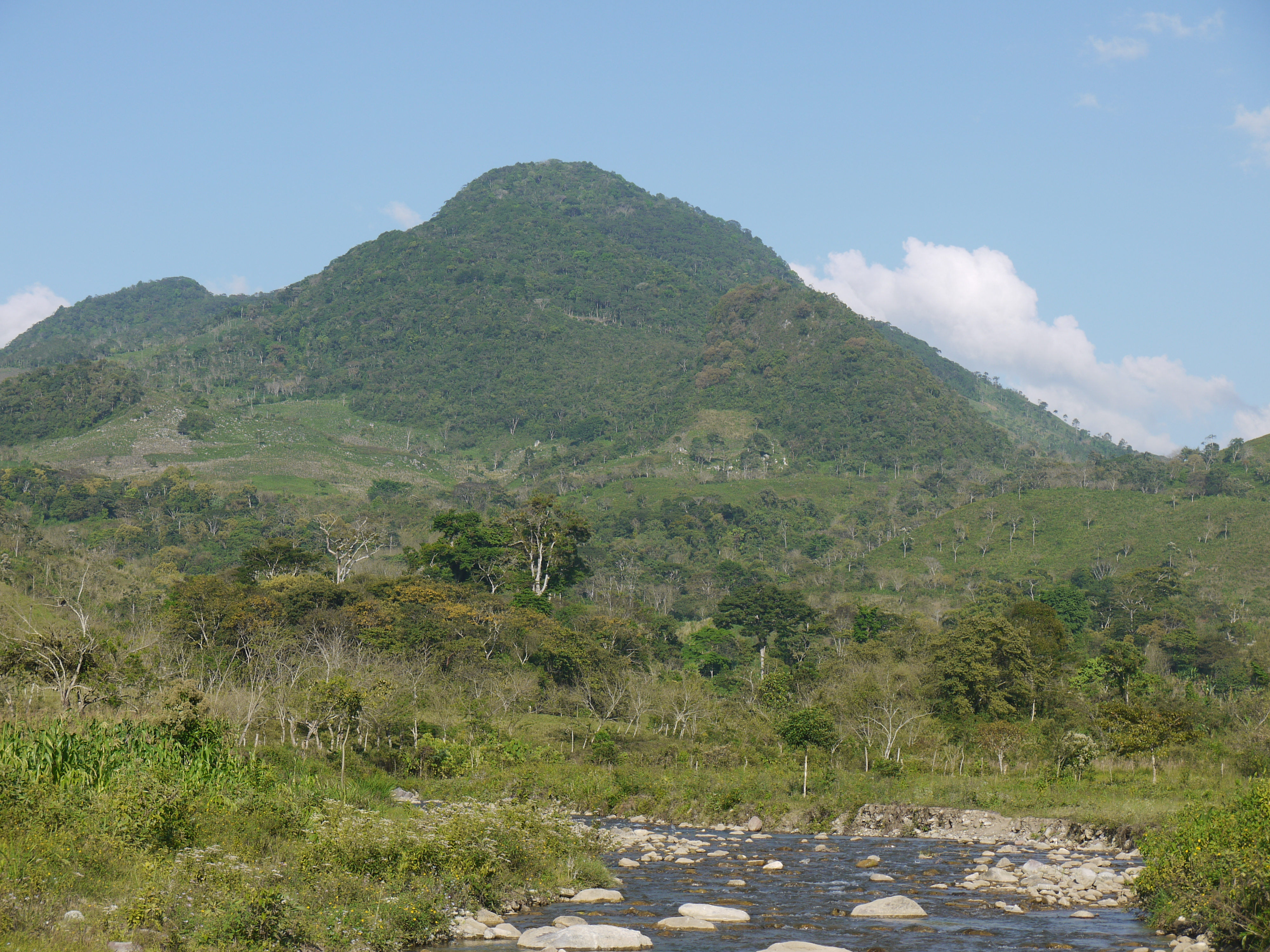 Terrain and hills near Palma Real, which is a village (aldea) in the municipality of San Luis, Santa Bárbara, Honduras. The stream in the photo drains through Palma Real into río Blanco.